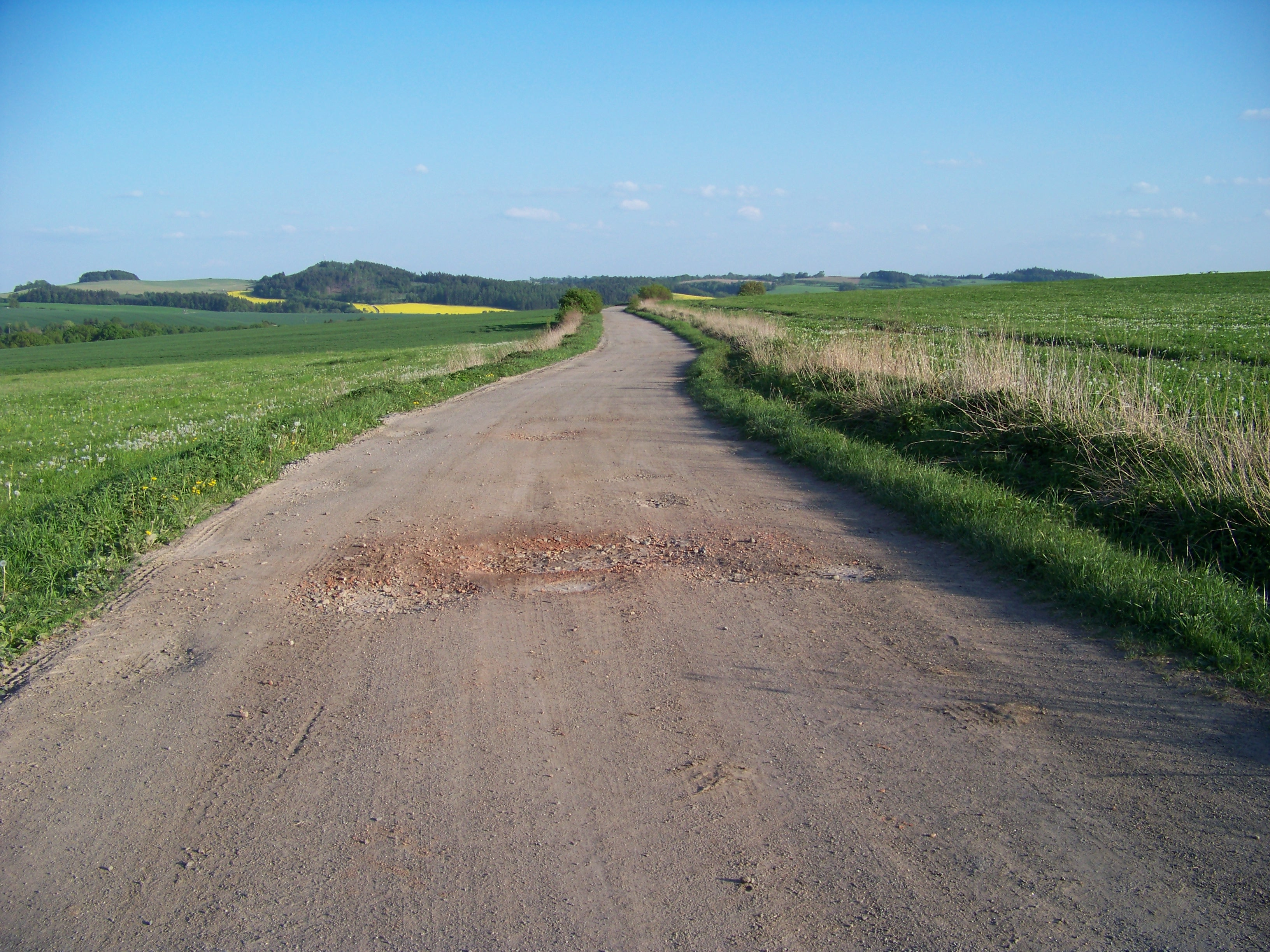 Petroupim, Benešov District, Central Bohemian Region, the Czech Republic. A way from Soběhrdy.